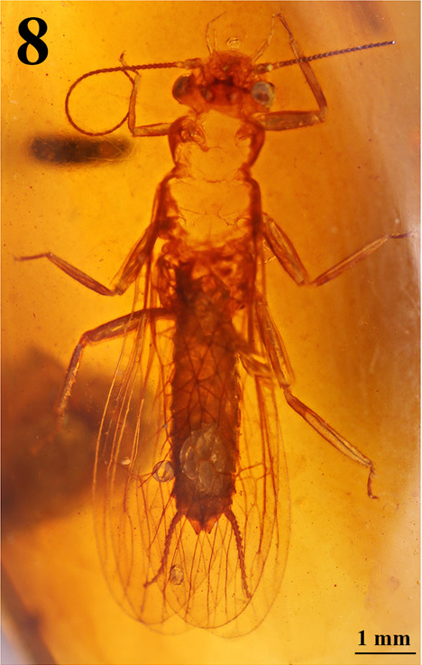 FIGURES 8–13. Largusoperla flata, holotype male. 8. Habitus, dorsal view